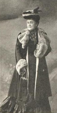 An older white woman, standing, wearing a coat with fur collar and cuffs, and an elaborate hat. She is holding a small purse in one hand.